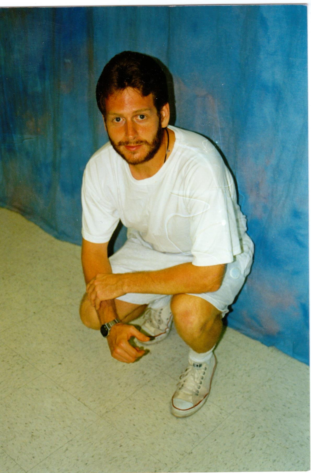 Timothy Leonard Tyler #99672-012 Prisoner of the War on Drugs. Deadhead. Non violent drug offender, LSD 22 years in prison so far. In prison since 1992.